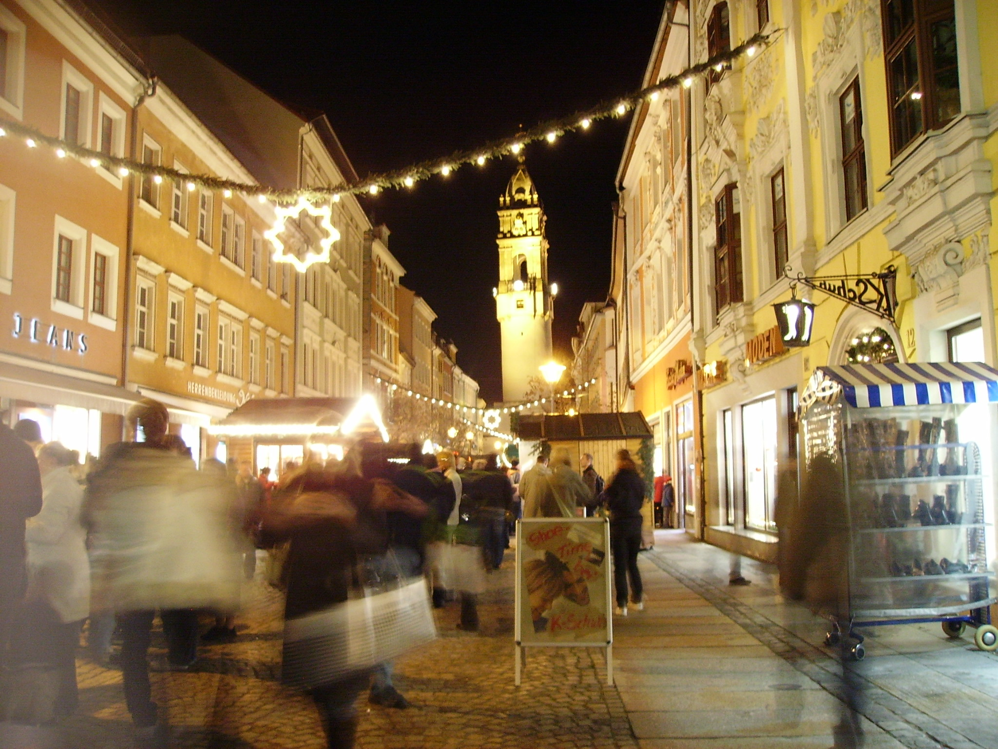 Christmas market in Bautzen.